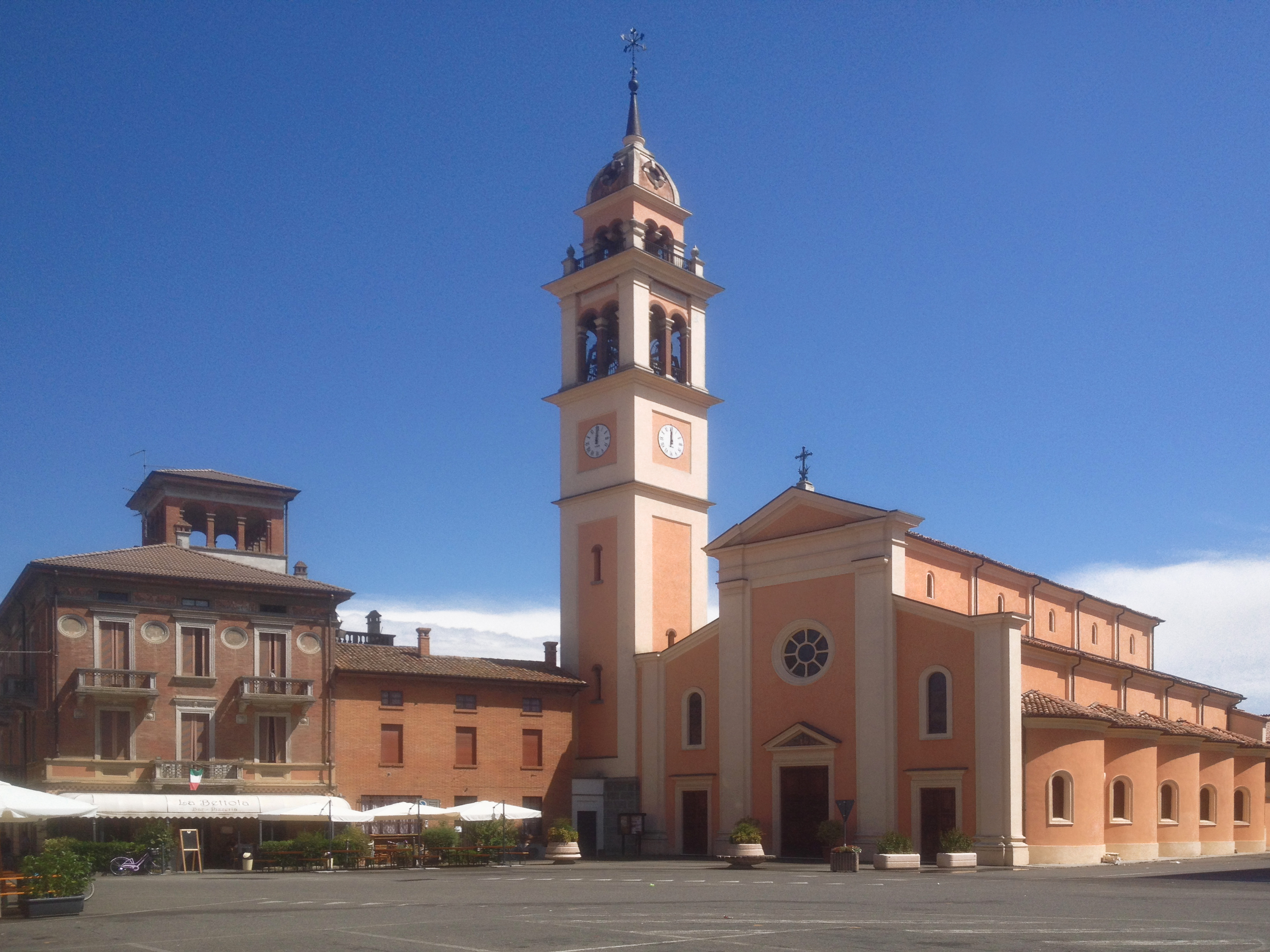 Chiesa dei Santi Fermo e Rustico